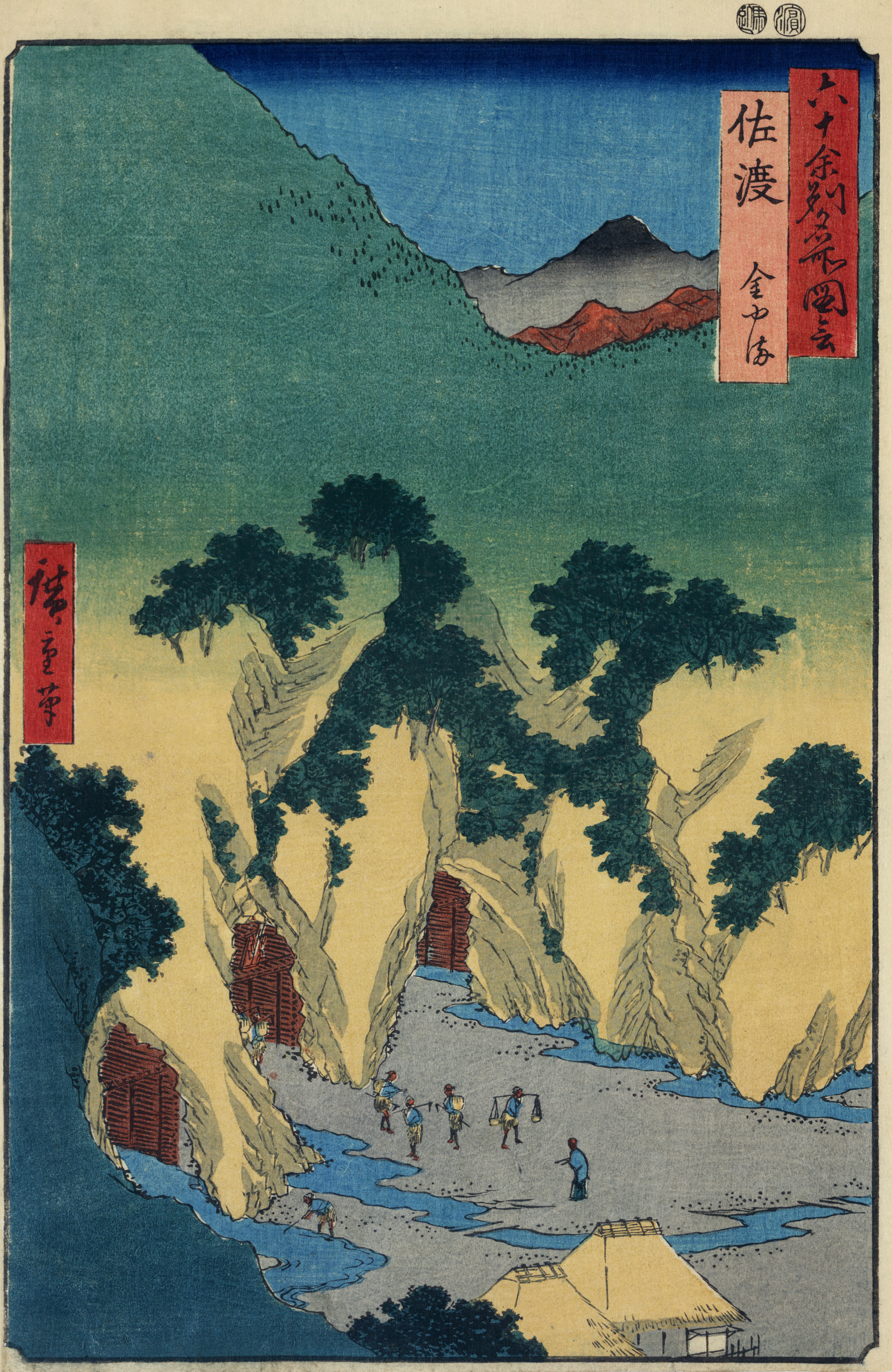 Sado. Ukiyo-e print shows gold mines in cliffs on Sado Island, with miners carrying gold out of the mines. No. 36 in the series Rokujū yoshū meisho zue (Famous views in the sixty-odd provinces), 1853.